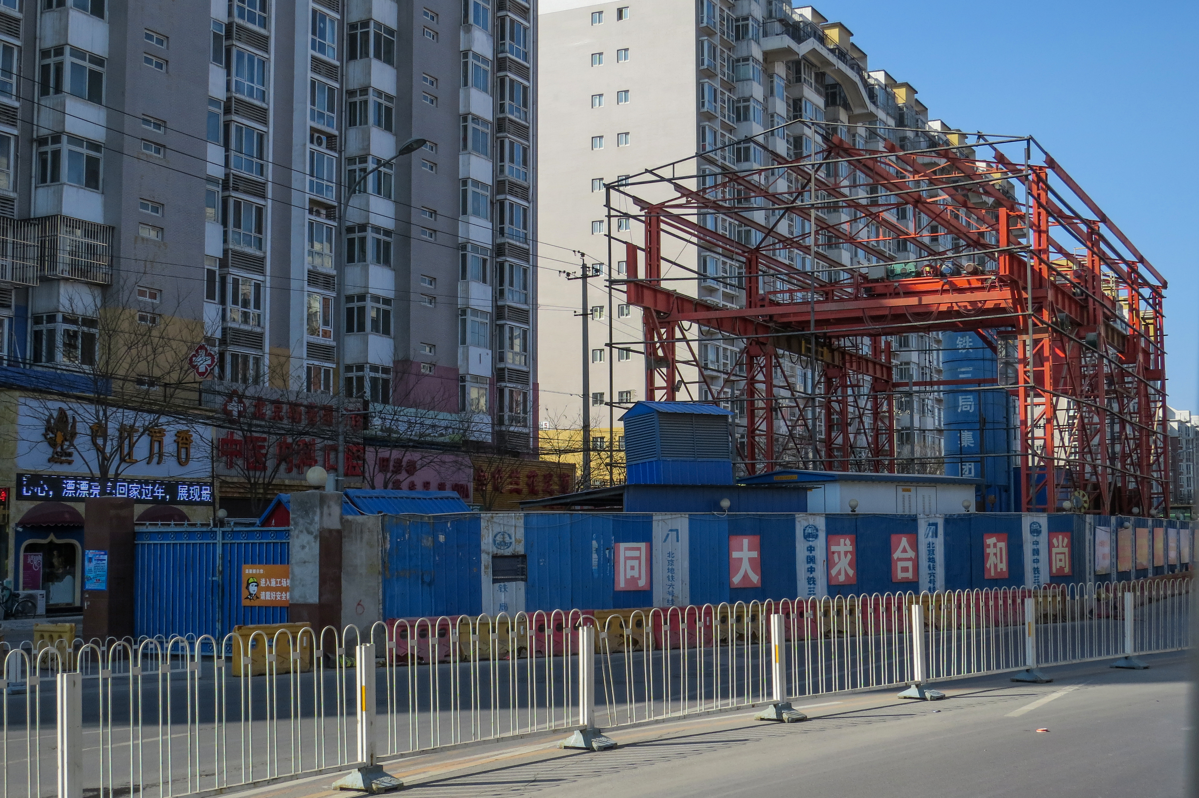 Tiancun Station is located on Tiancun Rd, Yuquan Rd, which would be an interchange station for Line 3 and Line 6.